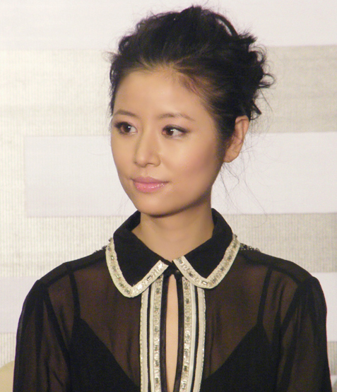 Ruby Lin at press conference of her 10th anniversary in Beijing, China, on Jan 22nd, 2008.